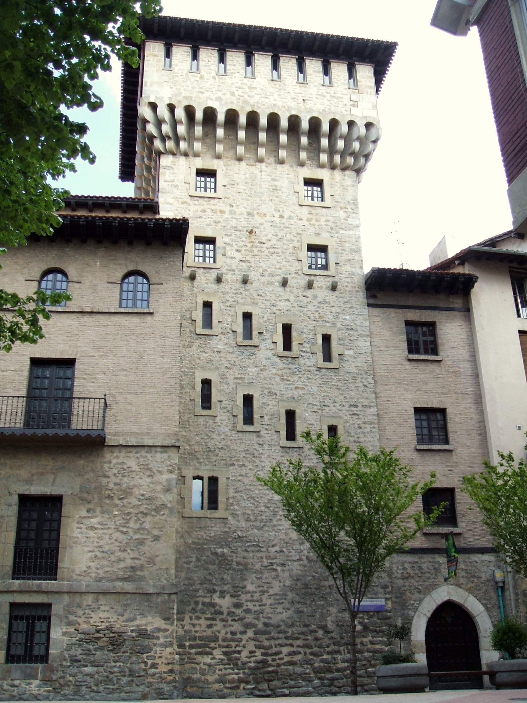 Museo de Ciencias Naturales de Álava (Torre de Doña Ochanda), en Vitoria-Gasteiz